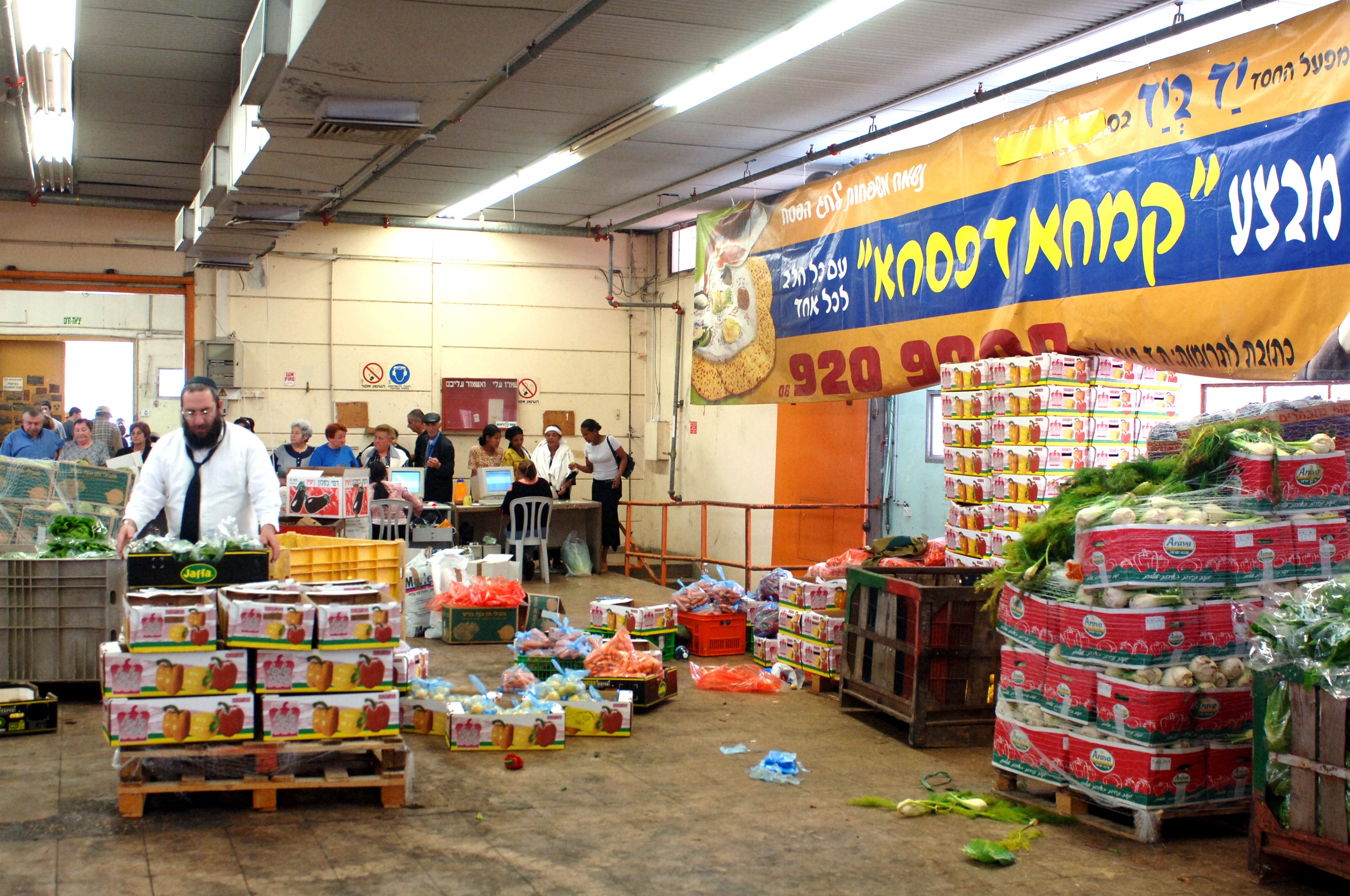 Passover holiday. In the photo, holiday food packages are distributed to needy families in Jerusalem. חג הפסח. בתמונה: חלוקה של מזון למשפחות נזקקות בירושלים Photo: Moshe Milner (1946–) Alternative names Miylner, Moše; Milner, Mosheh; Moshé Milner; Milner, M.; Mîlner, Moše; Miylner, MošehDescriptionIsraeli photographerצלם ישראליDate of birth 1946 Location of birth Germany Authority control : Q28750411 VIAF: 100999744 ISNI: 0000 0001 0804 0507 LCCN: n82072104 GND: 115699732 BNF: 15548788n WorldCat creator QS:P170,Q28750411 , 04/22/2005